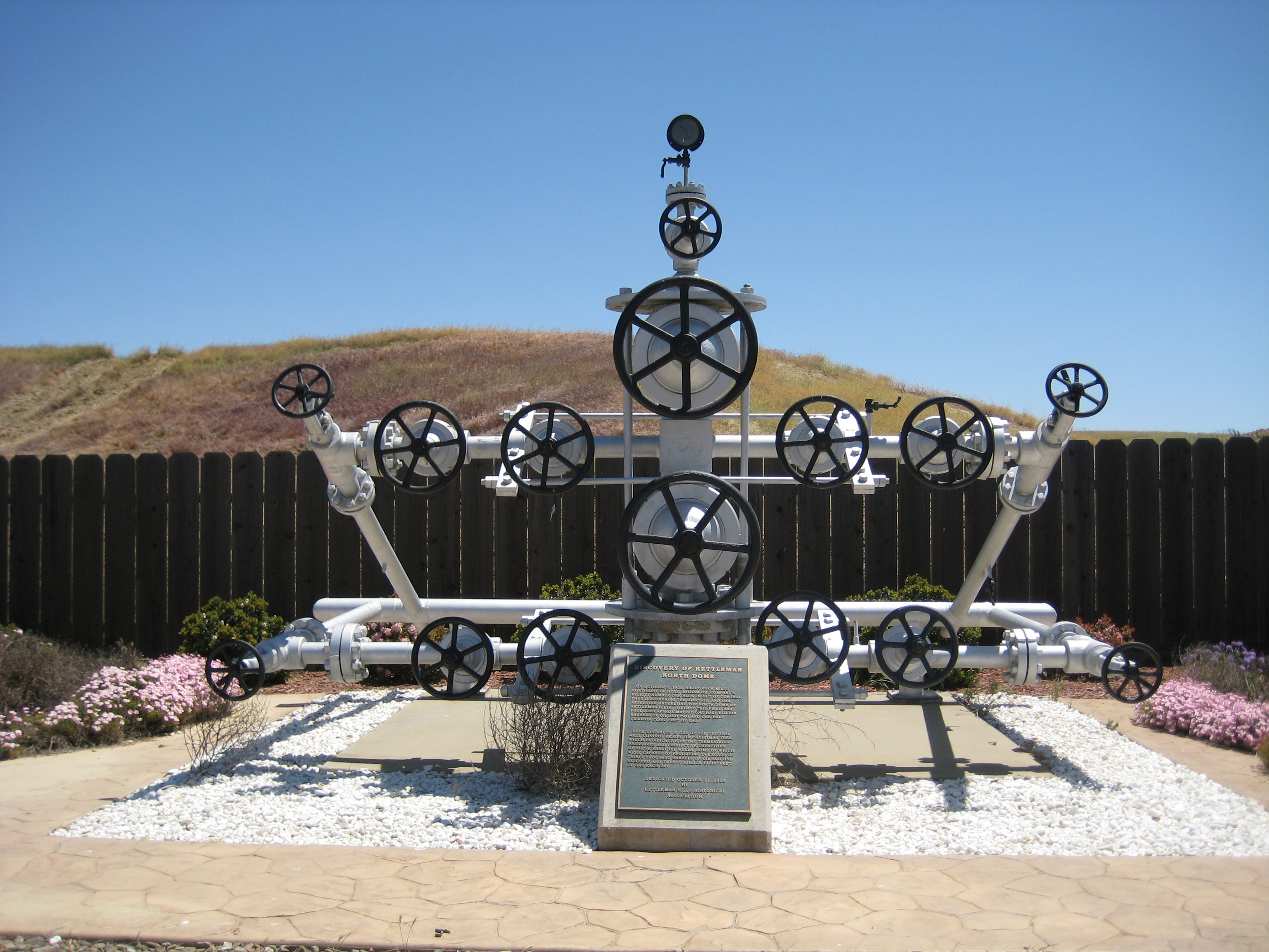 The monument to the discovery of the Kettleman North Dome Oil Field — located in Avenal, western San Joaquin Valley, California. The plaque reads:"On October 5, 1928, about four miles northeast of here, MIlham Oil Company's Elliott No. One blew in out of control, thus discovering the giant oil and gas reservoir underneath the North Dome of Kettleman Hills. To date, this field has produced approximately one half billion barrels of oil and two and one half trillion cubic feet of gas.Here displayed is one of the original well control heads, or Christmas tree, which is indicative of the tremendous pressures and productive capacities of these early oil wells, some of which were capable of producing in excess of thirty thousand barrels of oil and one hundred and twenty million cubic feet of gas each day.Dedicated October 11, 1958 by Kettleman Hills Historical Association."